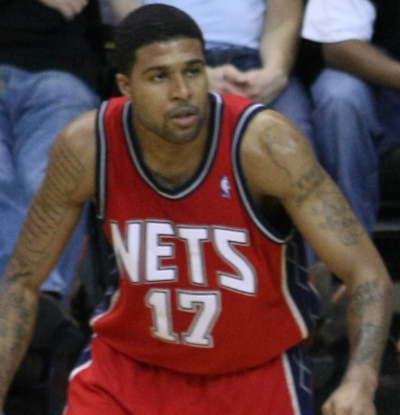 Washington Wizards v/s New Jersey Nets October 31, 2009 at Verizon Center in Washington, D.C.